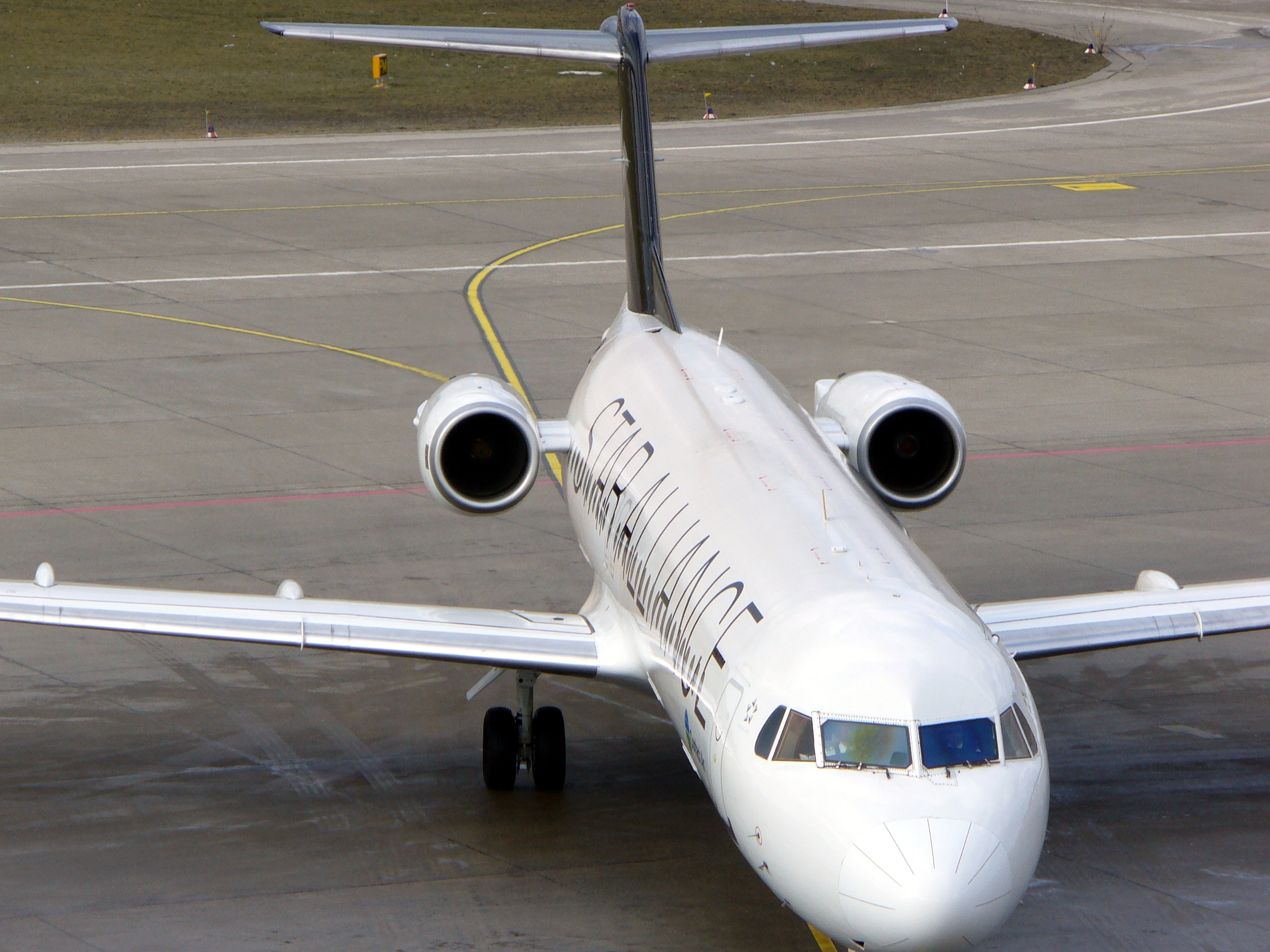 A Contact Air Fokker 100 (registered D-AFKA) painted in Star Alliance colors pulls into gate at Berlin Tegel Airport following a flight from Stuttgart